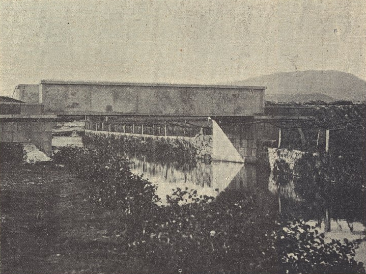 Bridge over the Portuzelo stream, in Portugal. Originally built for the Vale do Lima railway, was converted to road use after that project was cancelled. This image was published in the Gazeta dos Caminhos de Ferro magazine No. 1110, of 16th March 1934, and scanned by the Hemeroteca Municipal de Lisboa.